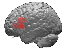 Brodmann area 45 BA45 is in the frontal lobe. This view shows the left hemisphere. The brain's surface is extracted from structural MRI data (Wellcome Dept. Imaging Neuroscience, UCL, UK). The Brodmann Area data is based on information from the online Talairach demon (an electronic version of Talairach and Tournoux, 1988). These images were created using Blender and Matlab. reference:Talairach, J., and Tournoux, P. Co-Planar Stereotactic Atlas of the Human Brain., New York: Thieme, 1988.